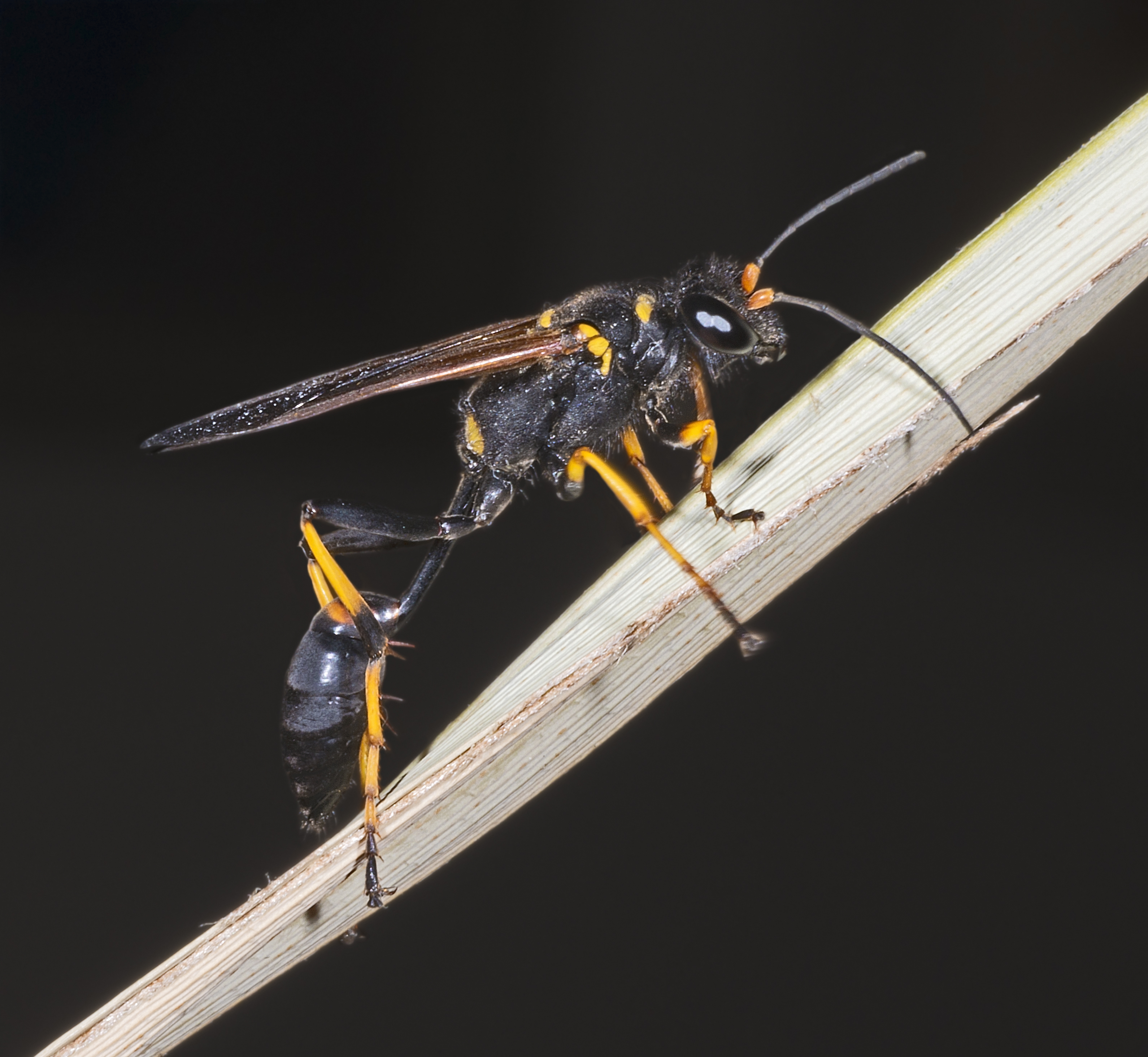 Black and yellow mud dauber